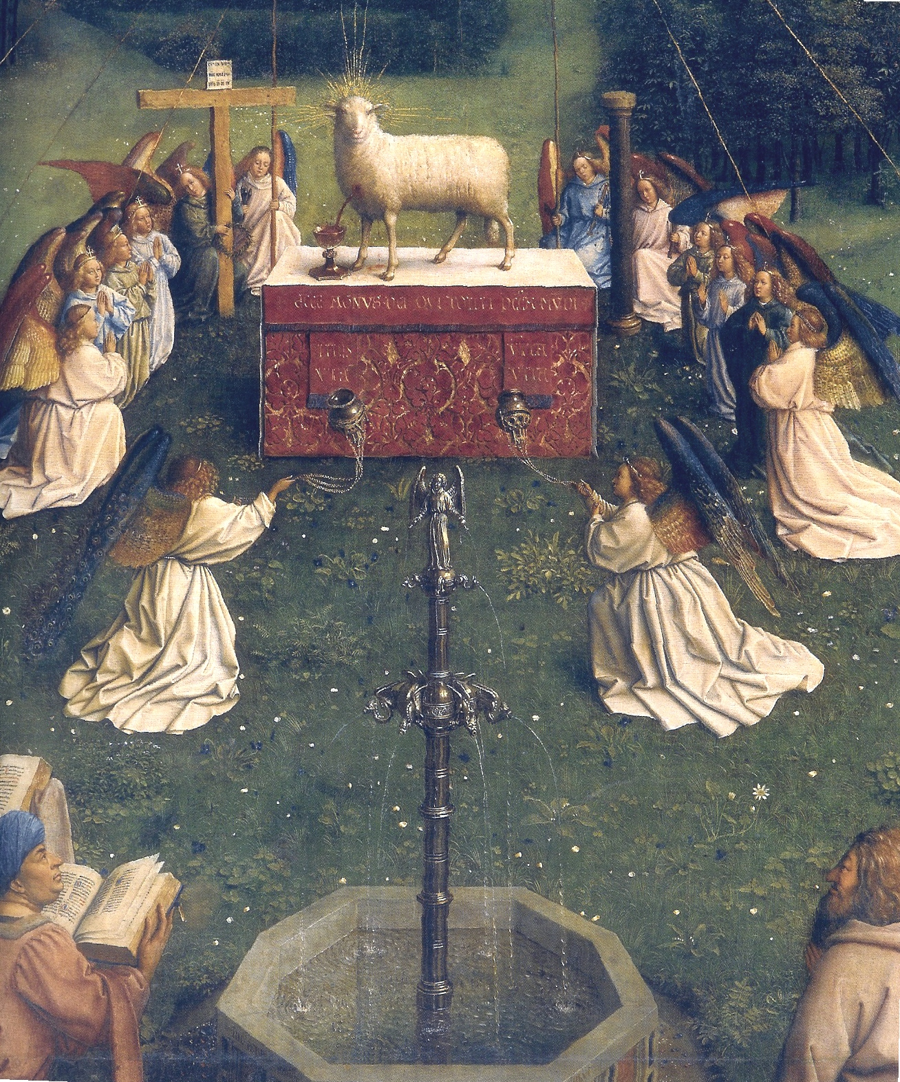 detail: the adoration of the lamb